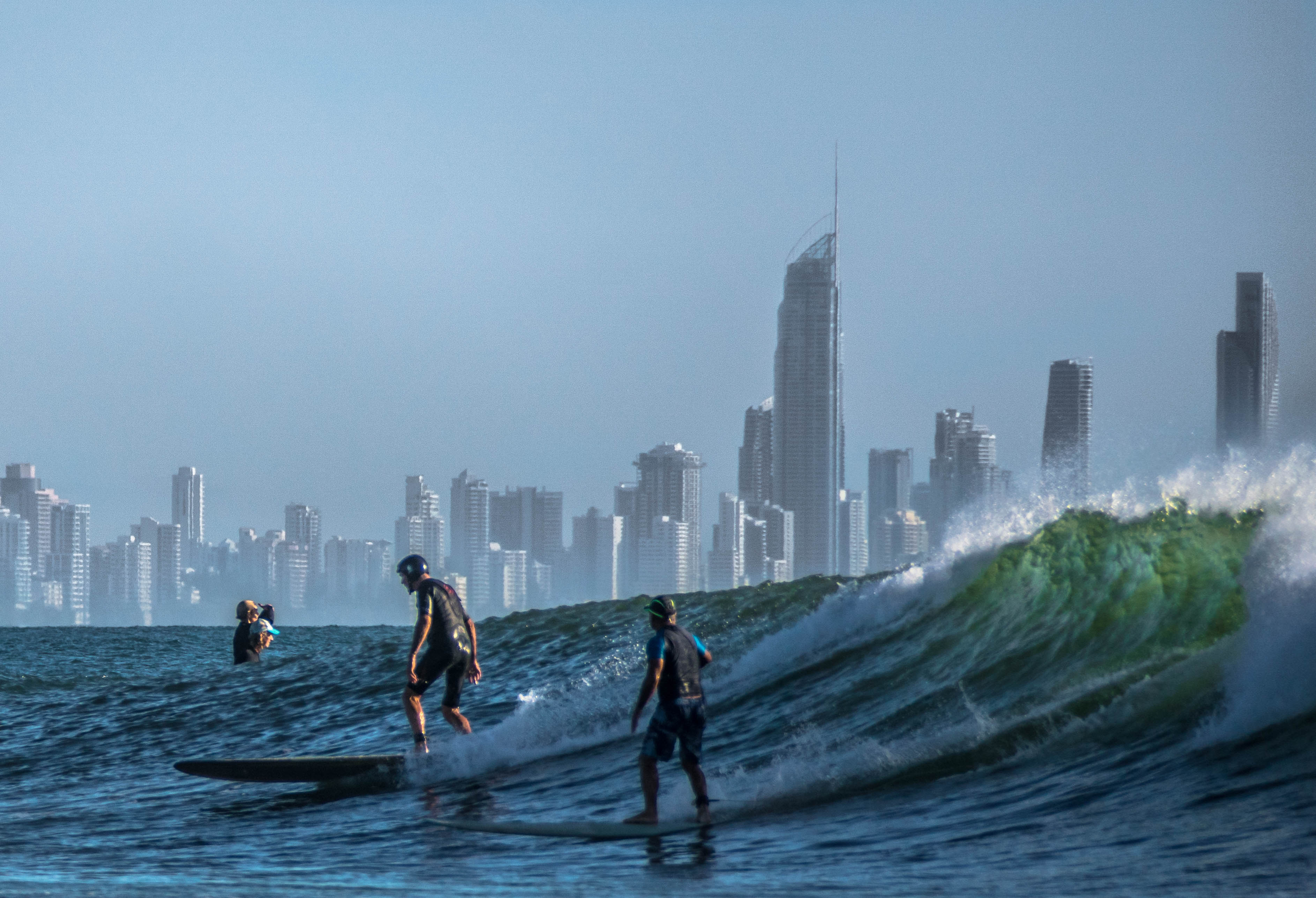 Surfing on the Gold Coast